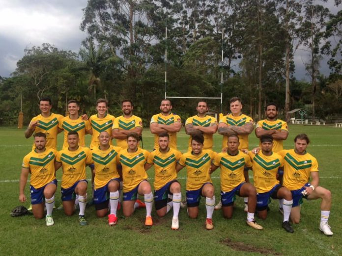 Brasil Rugby League 2018